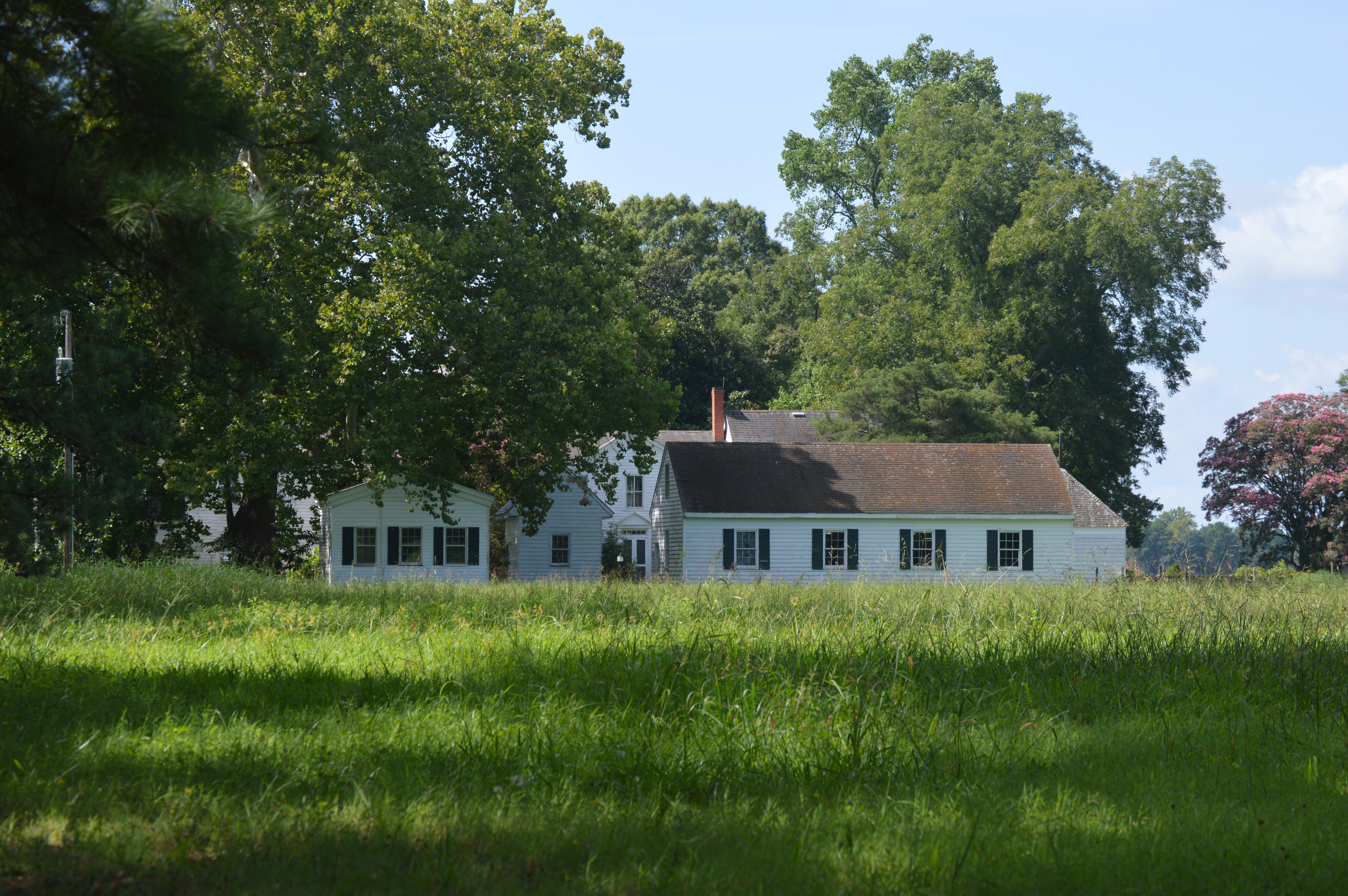 Northern side of the Poplar Grove House, located on Poplar Grove Lane south of Mathews Court House in Mathews County, Virginia, United States. The house and an associated tide mill are listed on the National Register of Historic Places.